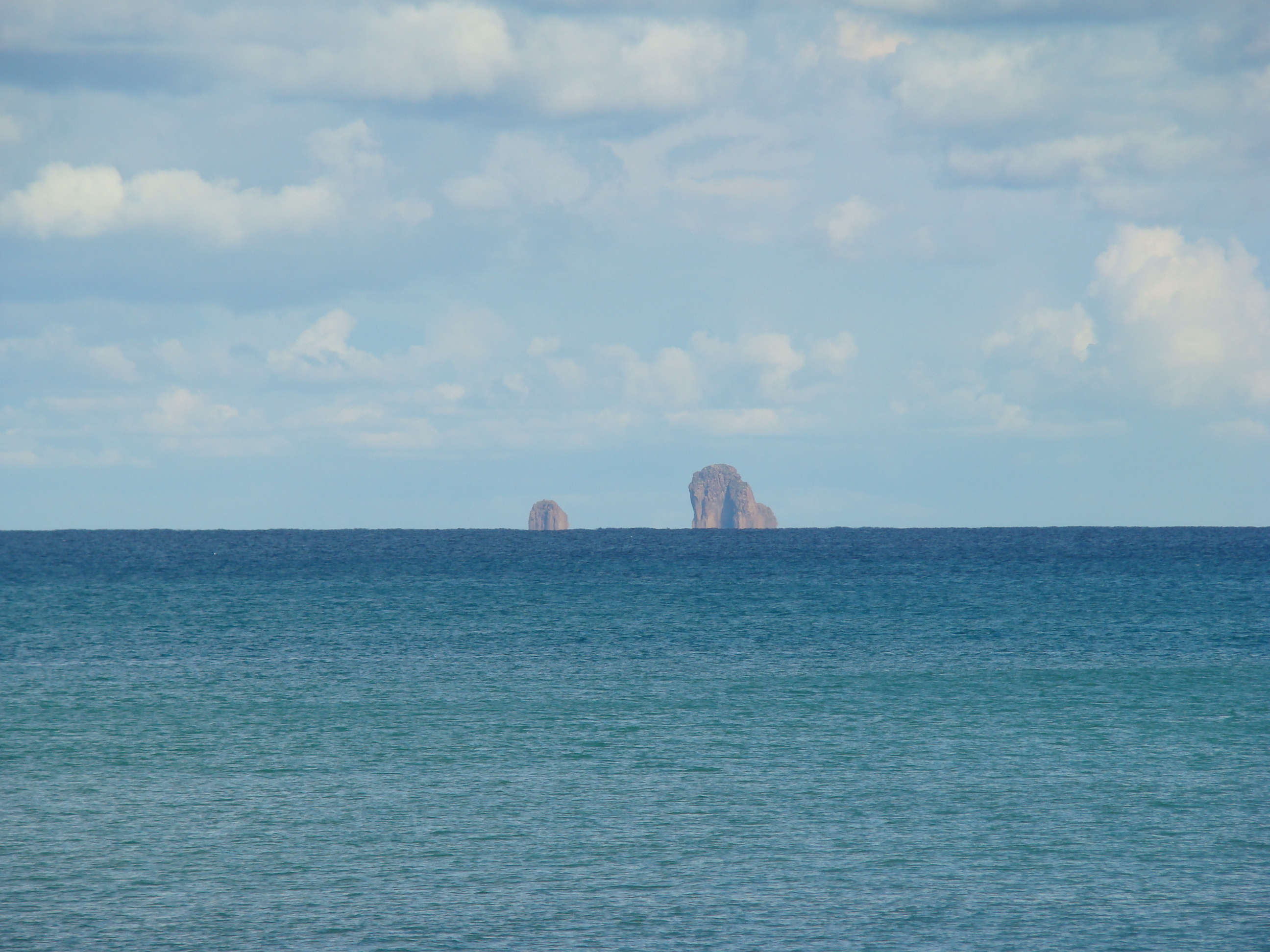 Isole Fratelli as seen from Cap Serrat, Tunisia